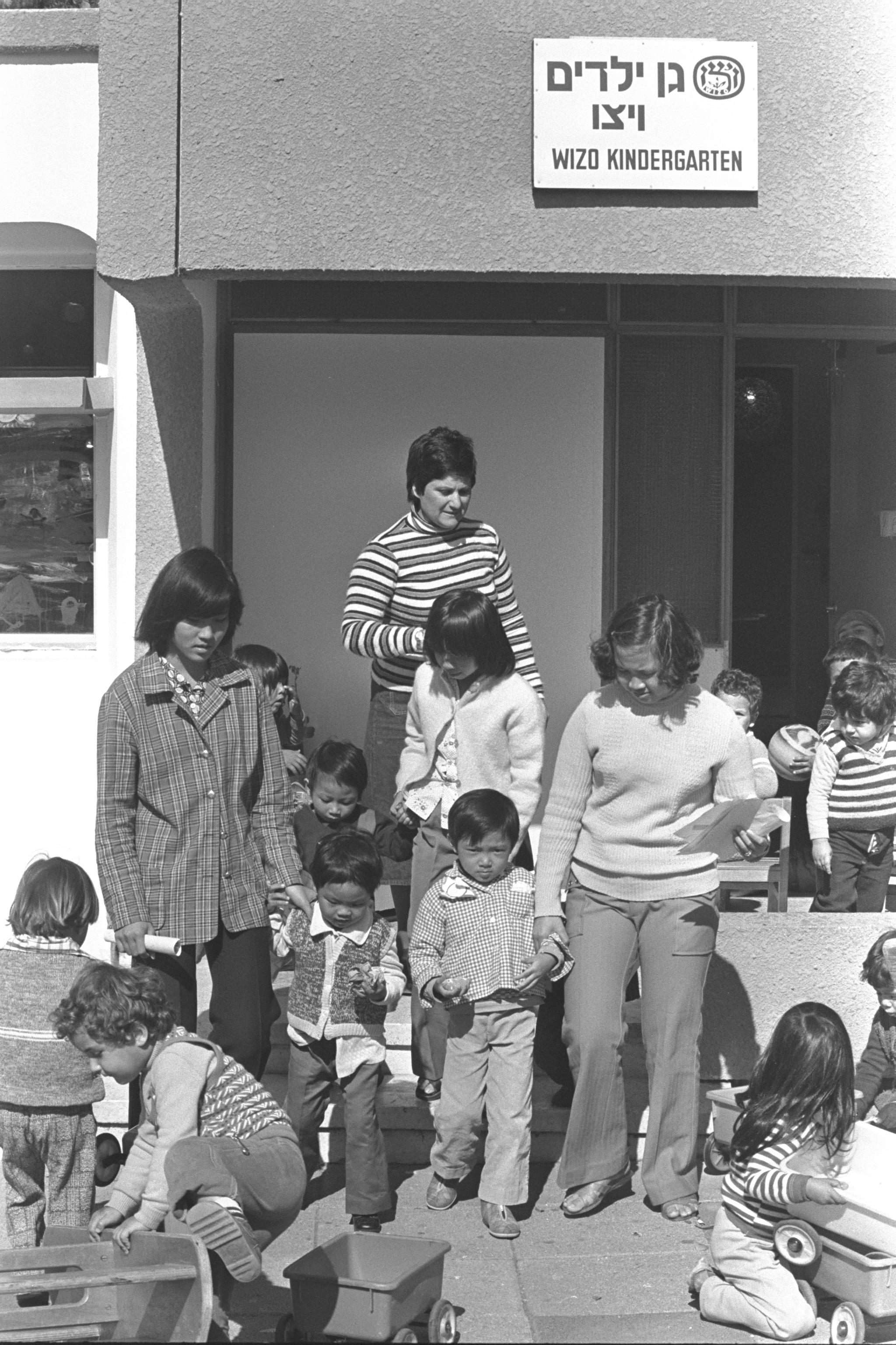 Vietnamese mothers bringing their children to the Wizo kindergarten in upper Afula.